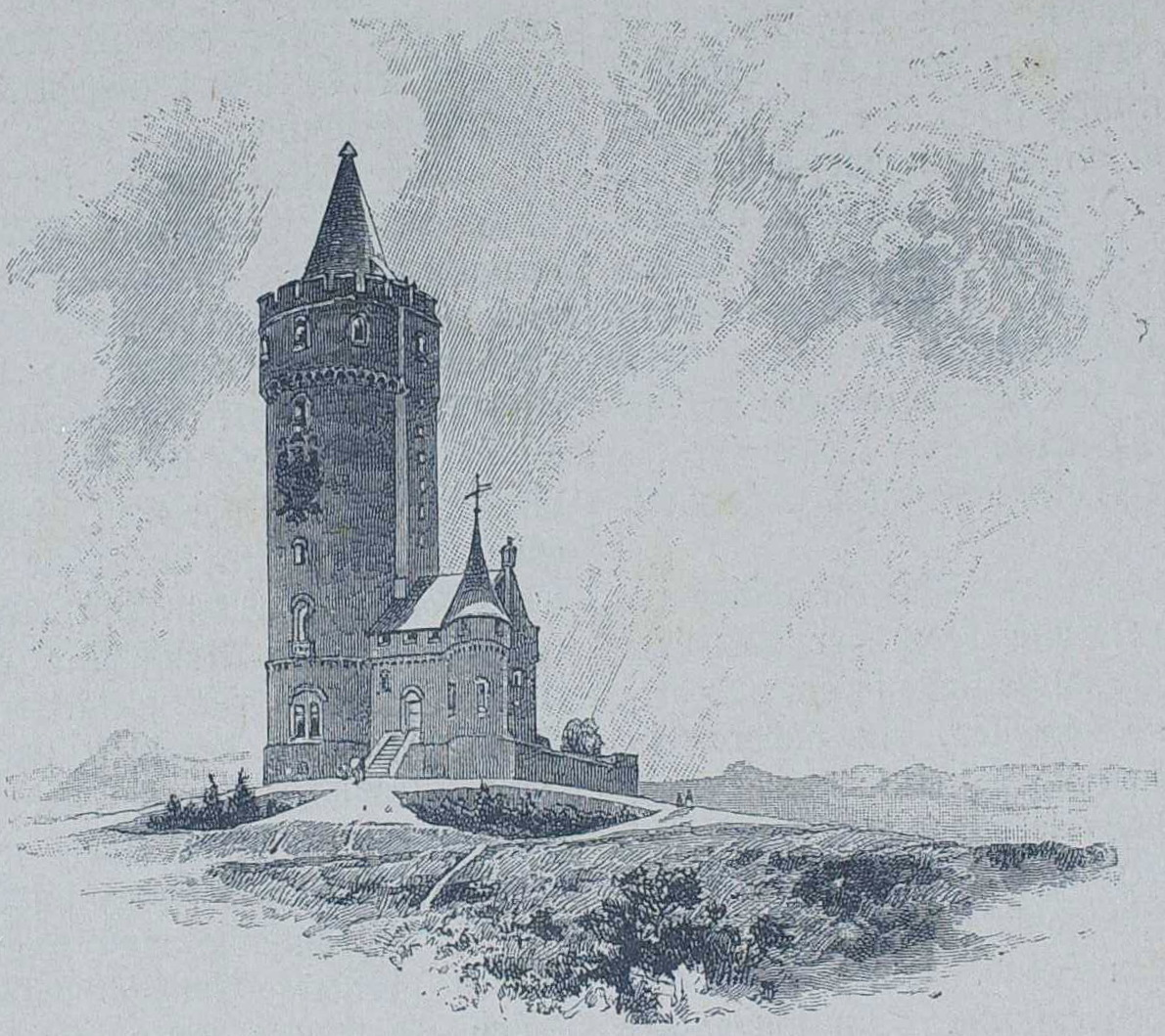 caption: "Aussichtsthurm auf dem Astenberg. Originalzeichnung von Richard Püttner."